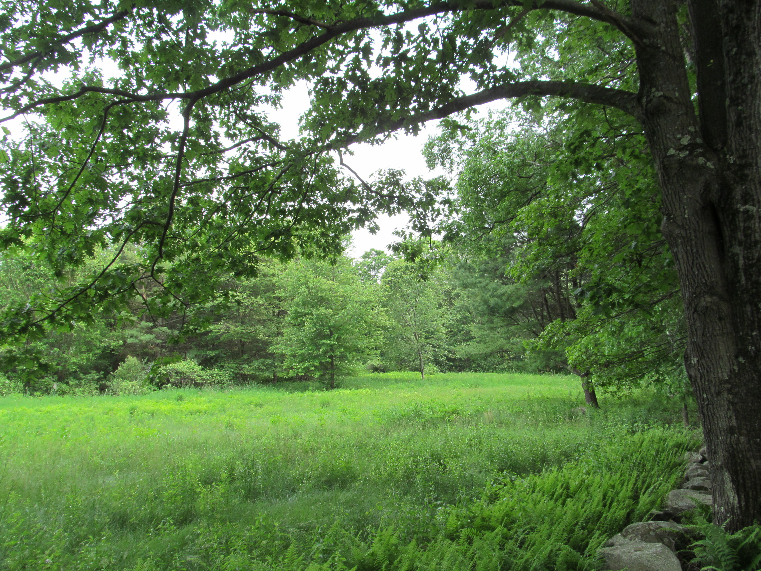 Malcolm Preserve, June 2012, Carlisle Massachusetts